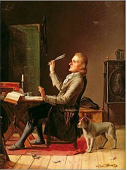 The Poet